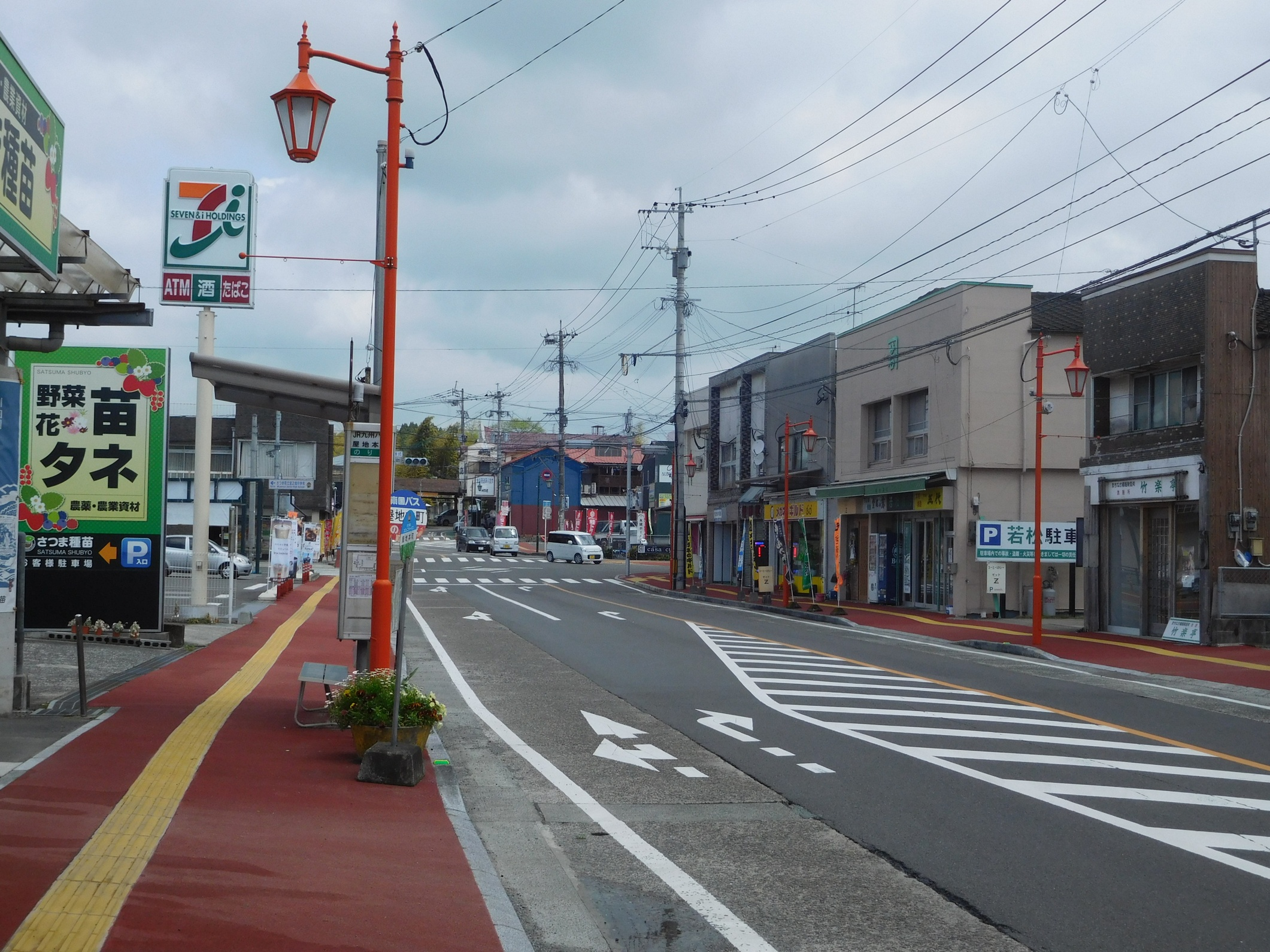 "National Route 328" at Miyanojo Yachi-Honmachi, Satsuma Town, Kagoshima Prefecture, Japan.